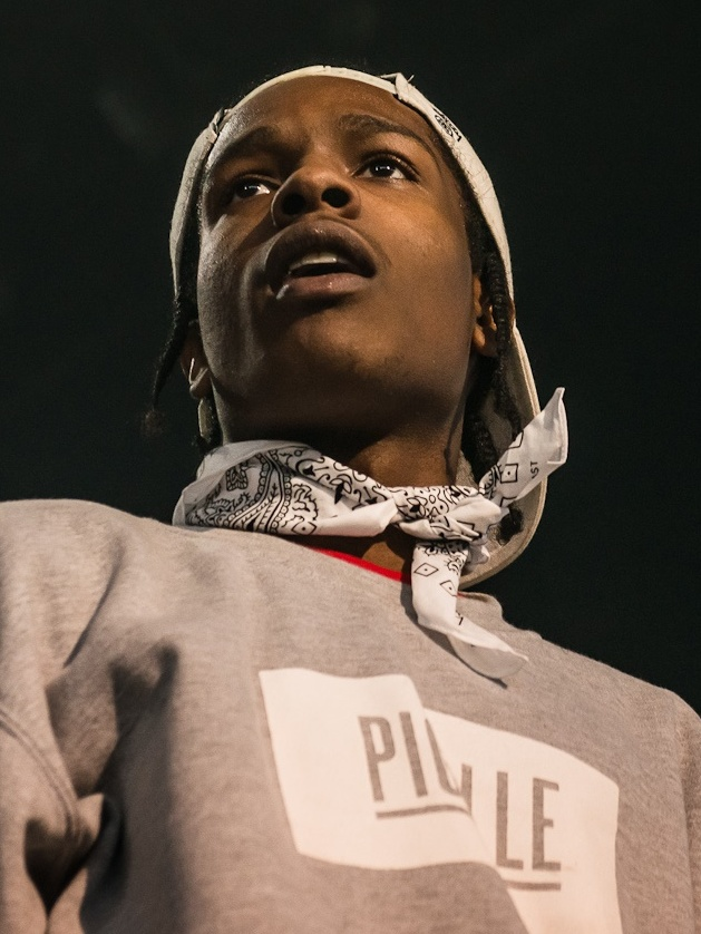 ASAP Rocky at The Come Up Show's 2013 Under the Influence Tour in Toronto